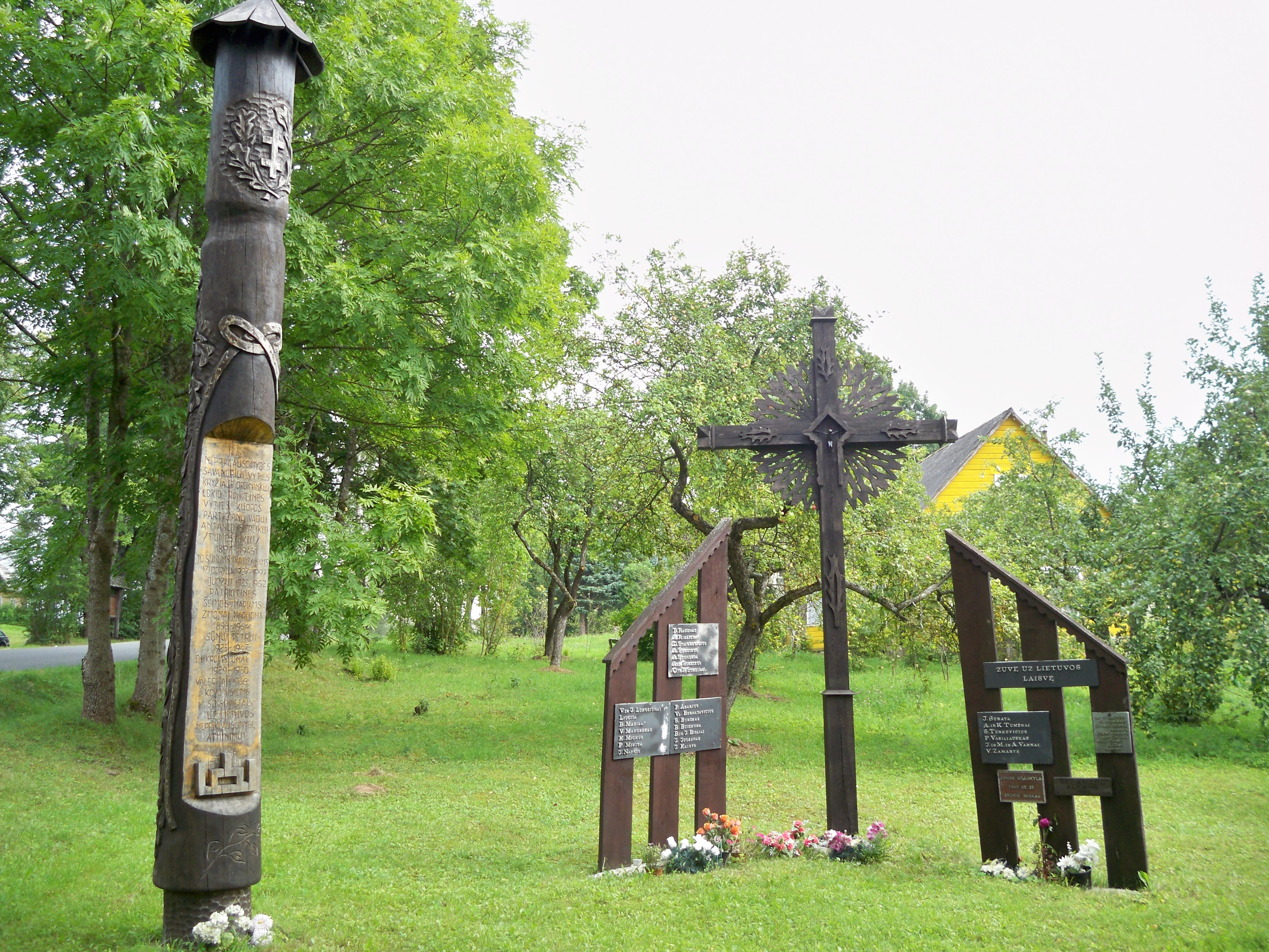 Antazavė monument for partisans.